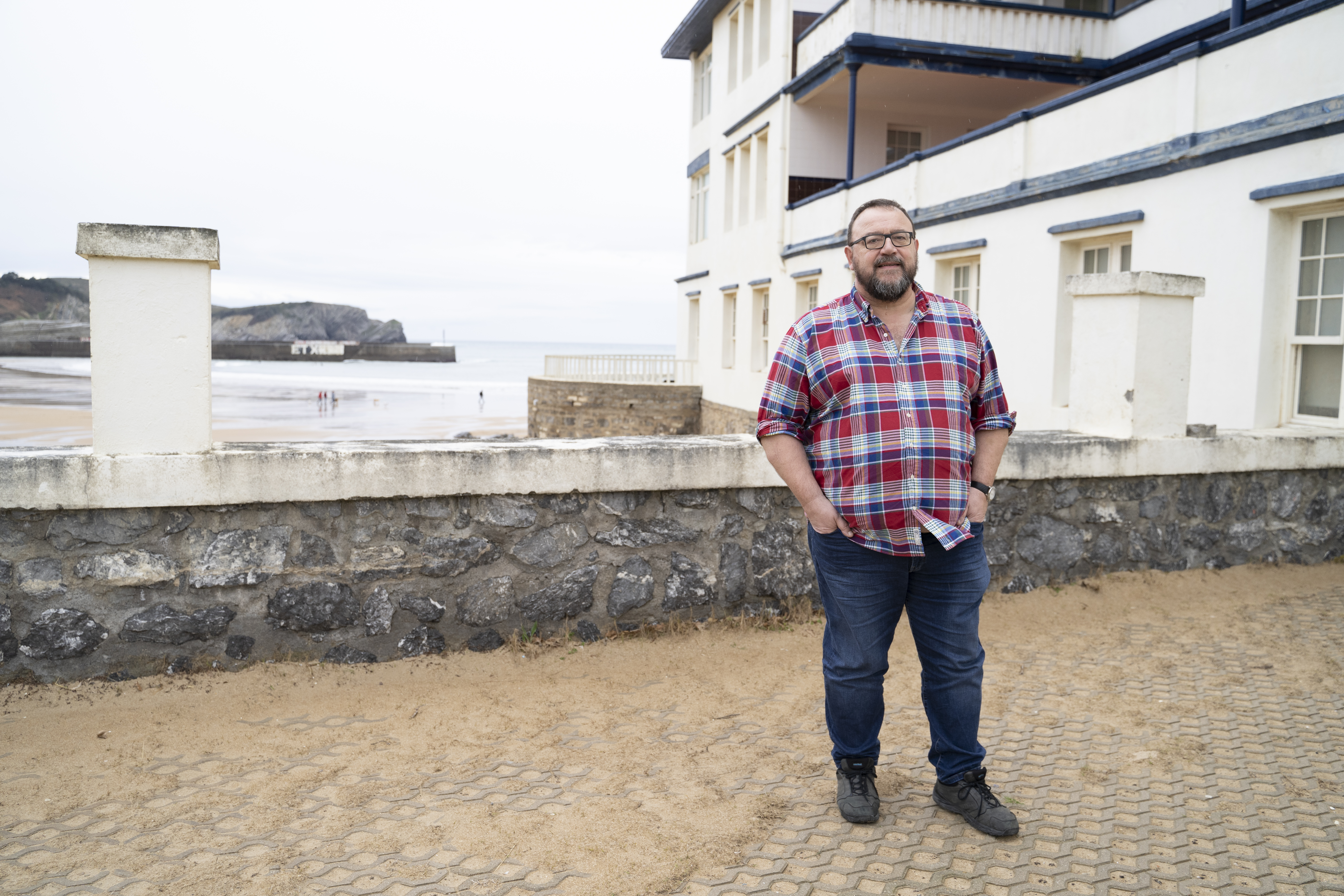 Ionan Marigomez head of the PIE research Center in Plentzia near Bilbao